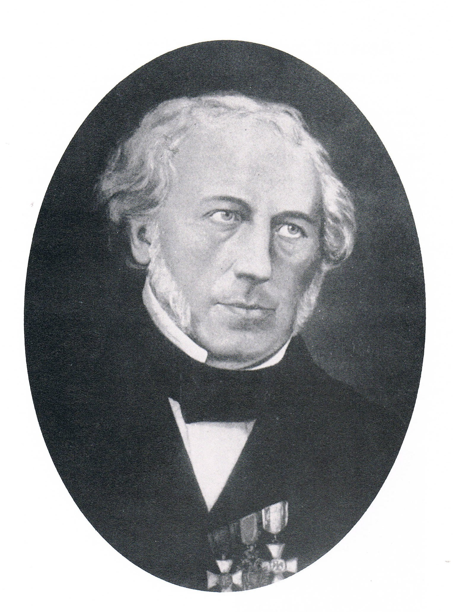 Nikolaus Nack (1786-1860), Mayor of Mainz